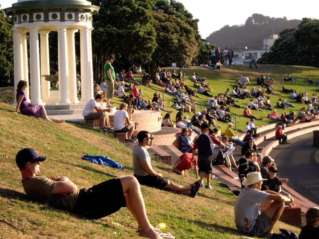 Basin Reserve, Wellington, New Zealand.